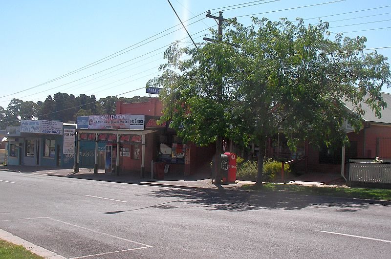 Brown Hill, Victoria, on Hummfray Street